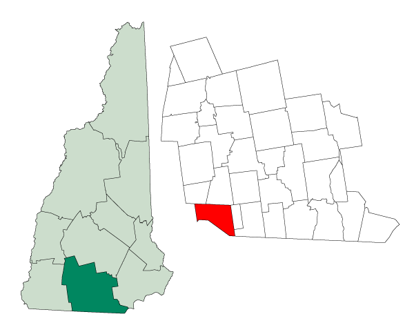 Map of a municipality in Hillsborough County, New Hampshire